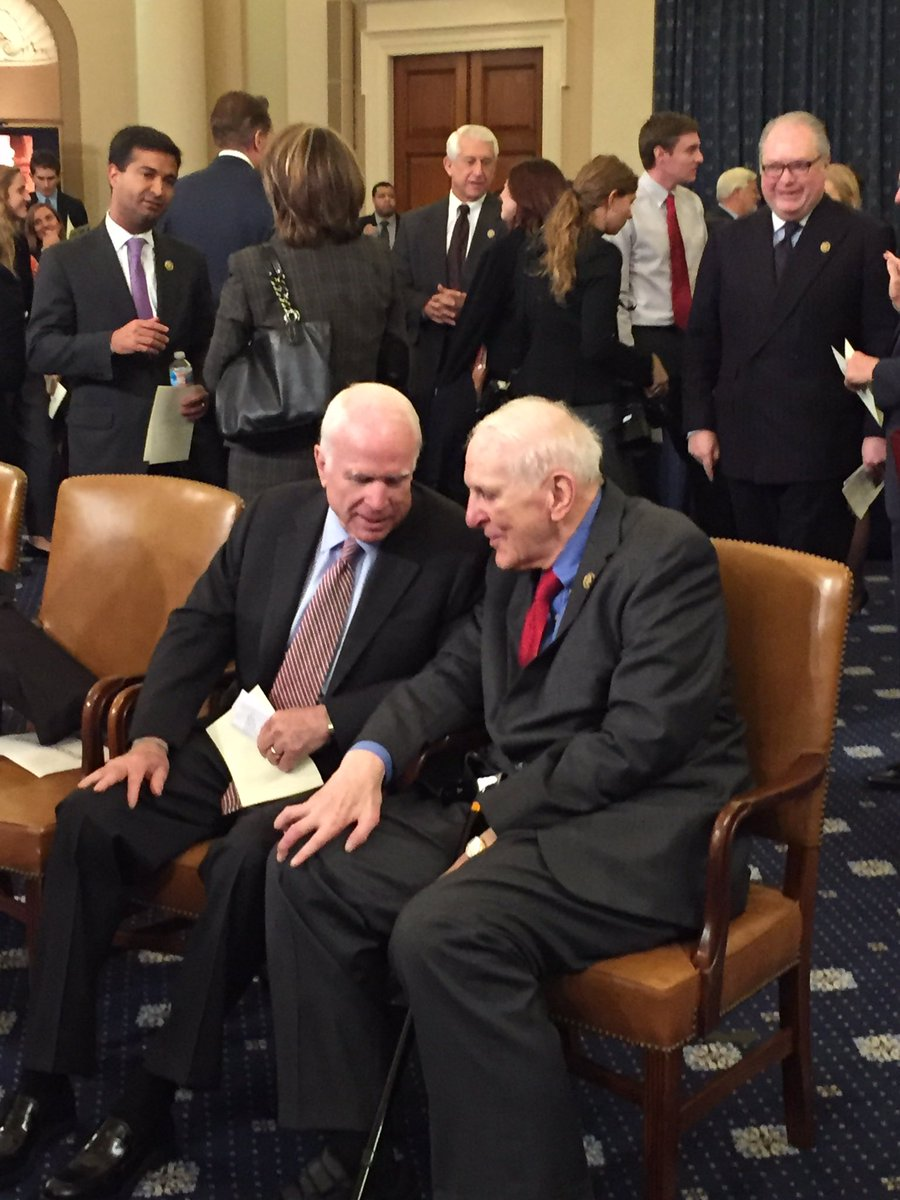 Very proud to honor my dear friend, comrade & true American hero Sam Johnson w/ a room bearing in his name in the House of Representatives